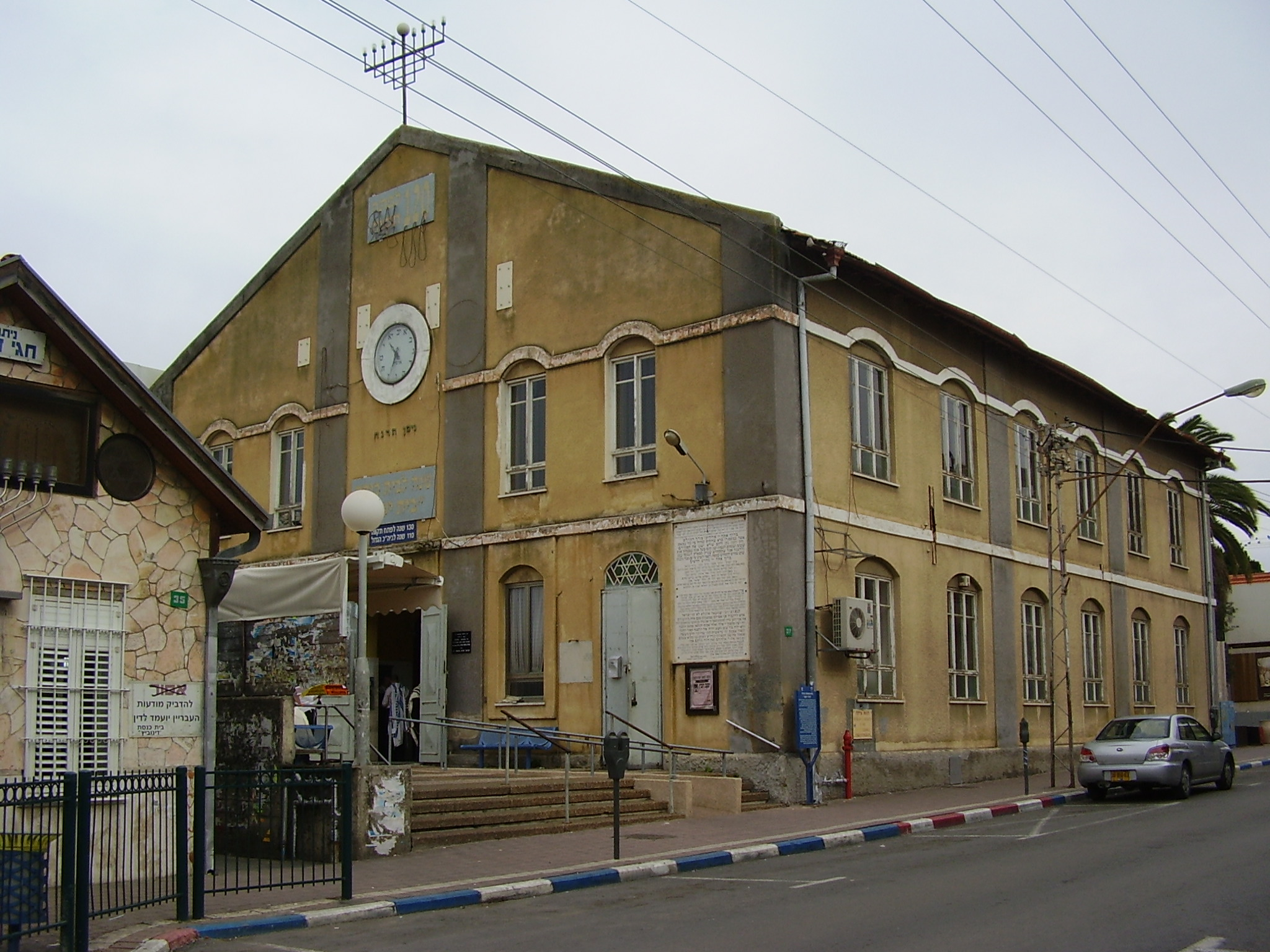 great synagogue in petah tikva בית הכנסת הגדול בפתח תקוה